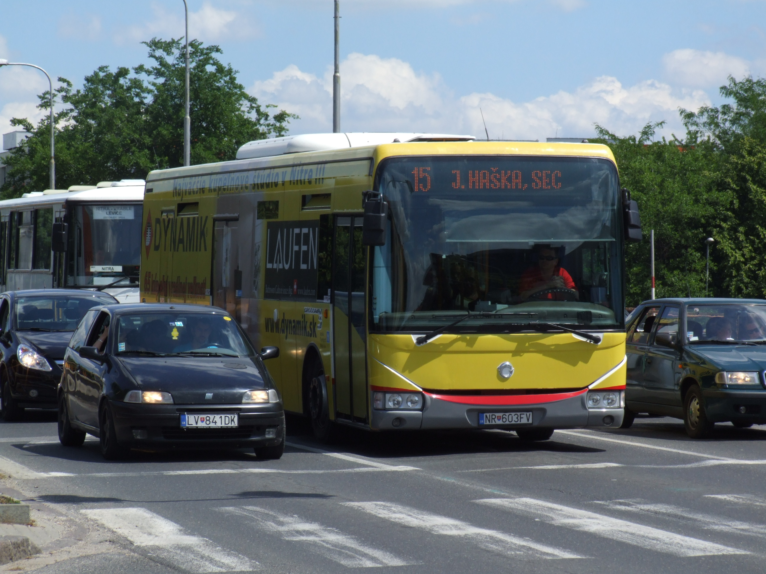 Irisbus Crossway LE bus (reg. NR-603FV) in Nitra, Slovakia. Veolia Transport Nitra operator.